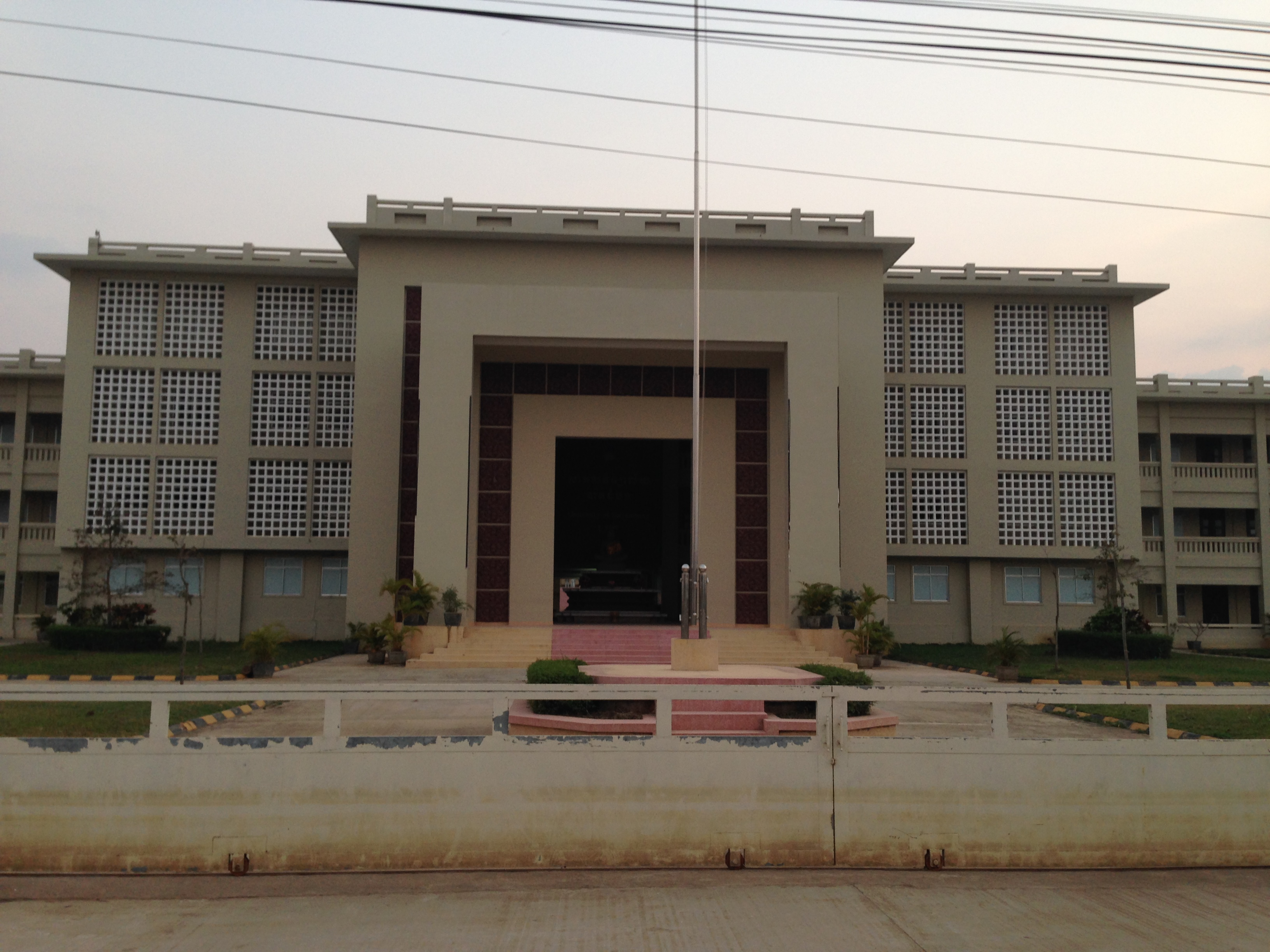 Battambang University